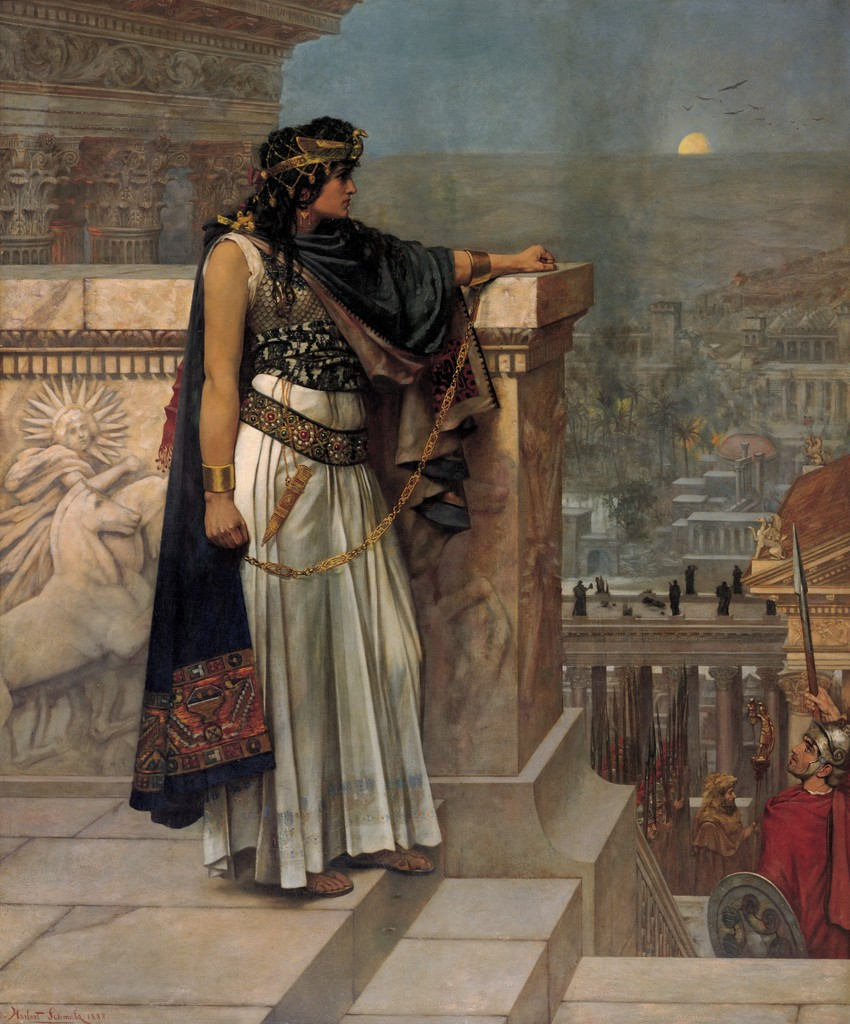 Queen Zenobia's Last Look Upon Palmyra.